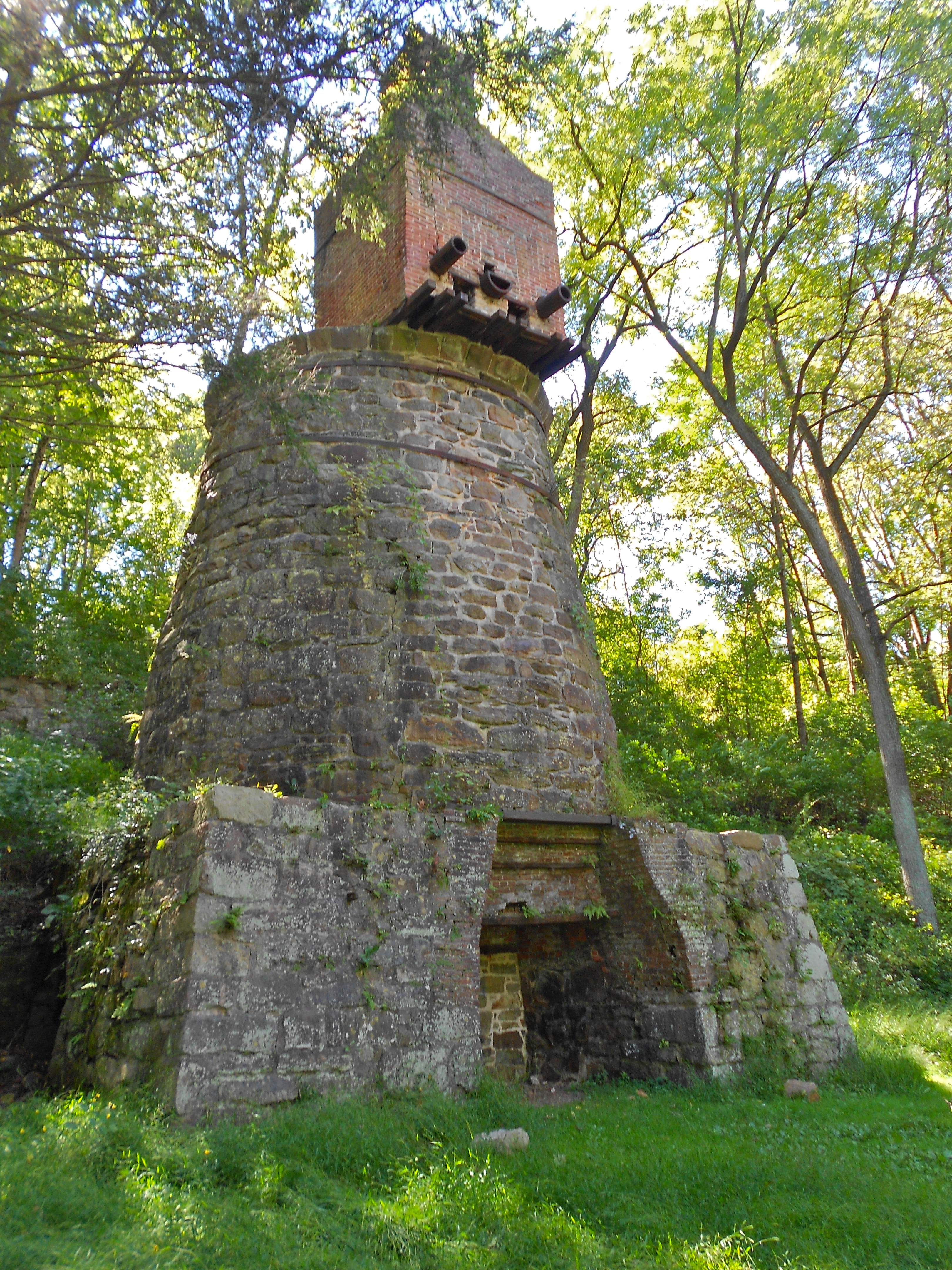 Codorus Forge and Furnace Historic District. Listed on the NRHP on September 6, 1991 At the junction of River Farm and Furnace Roads, southeast of Saginaw, Hellam Township, York County, Pennsylvania